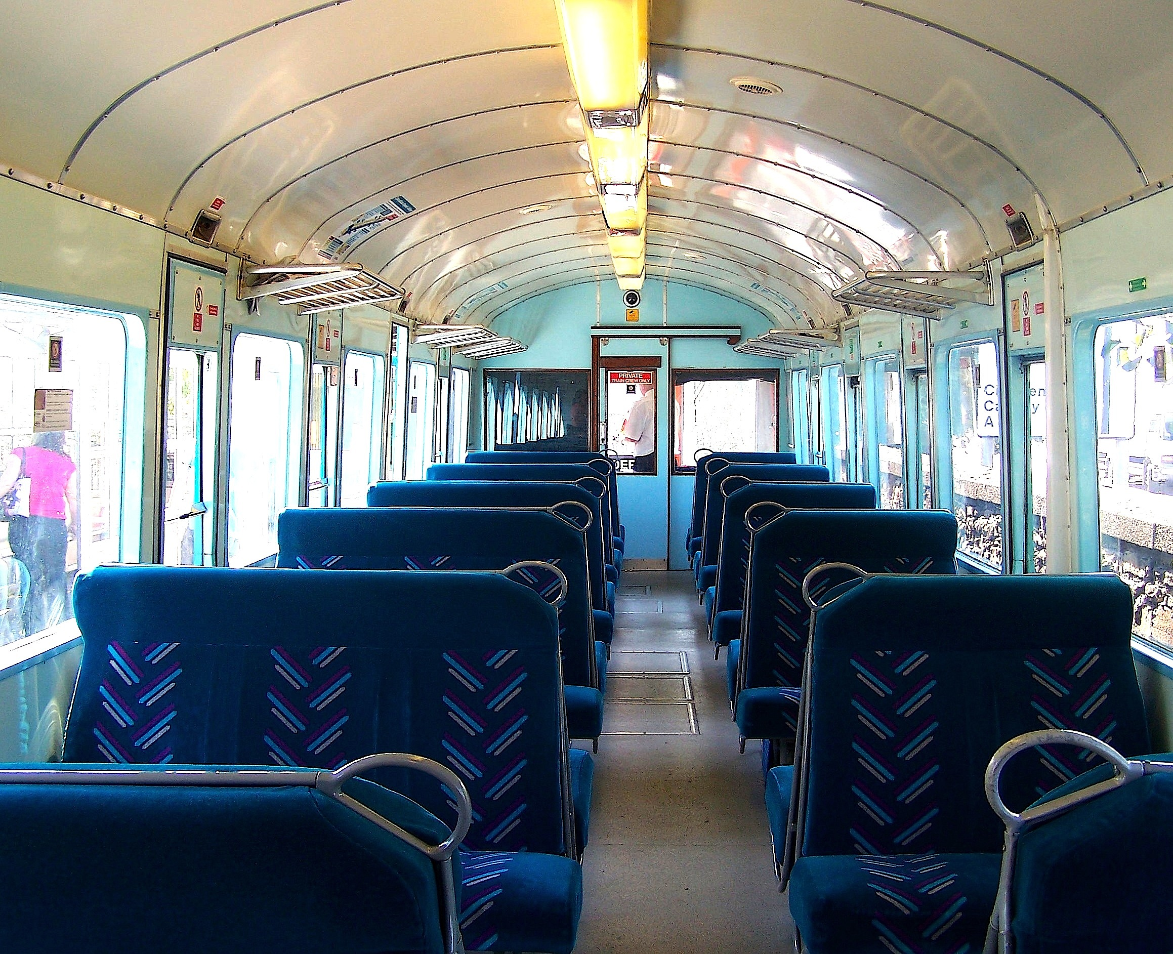 The refurbished interior of Arriva Trains Wales Class 121 No. 121032. This was used on the line from Cardiff Queen Street to Cardiff Bay until 2013, when it developed an engine problem which could not be rectified. As a result, it was withdrawn and transferred to Chiltern Railways (also an Arriva TOC) for use as a donor for spare parts (Chiltern Railways also operate 2 Class 121 units)